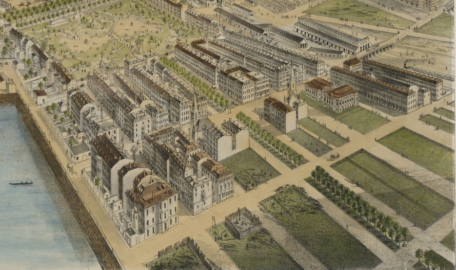 Back Bay. Detail of: Map of Boston, Massachusetts, July 4, 1870. By F. Fuchs; published by John Weik.